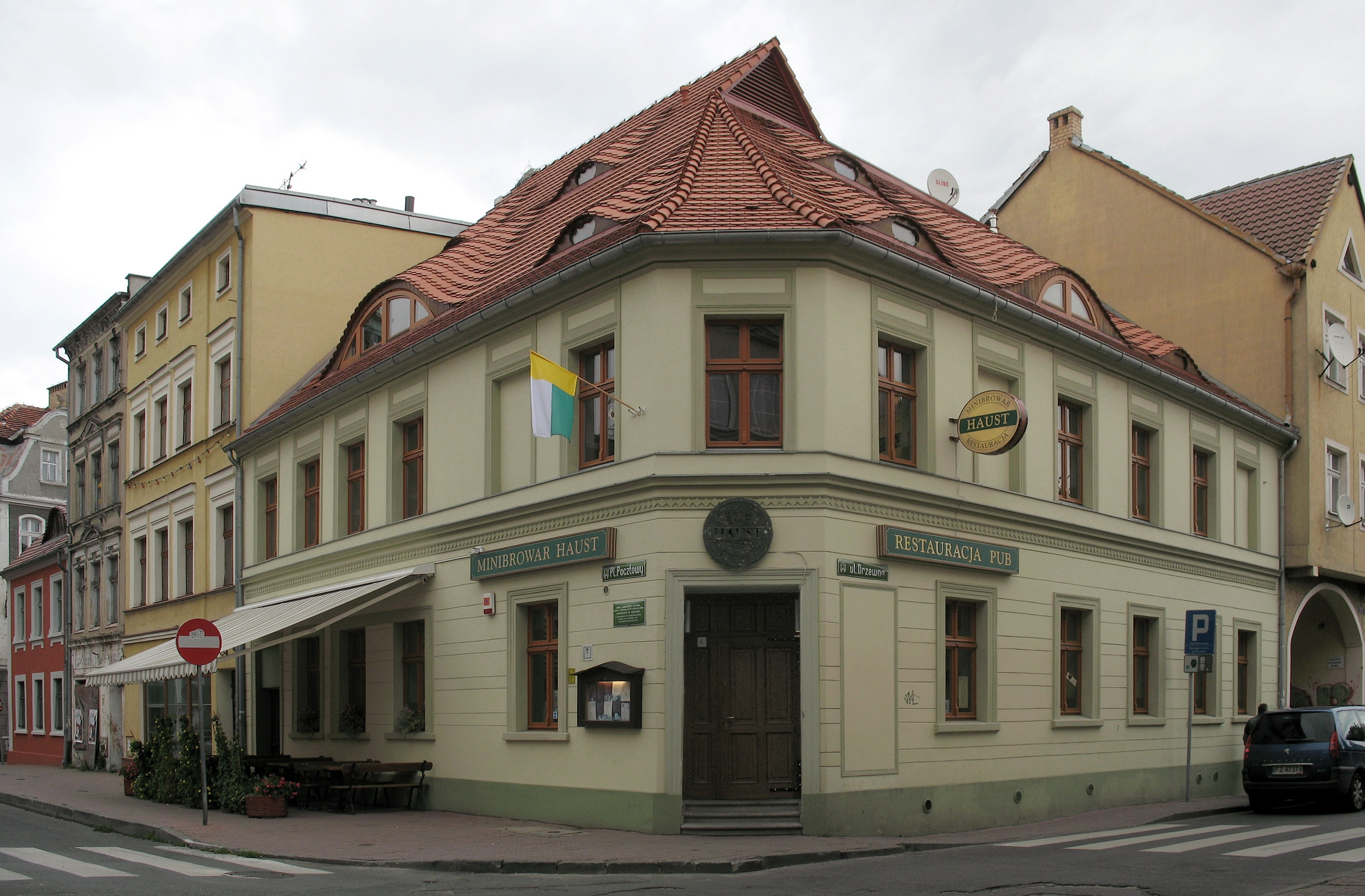 Haust, a mini-brewery in Zielona Góra